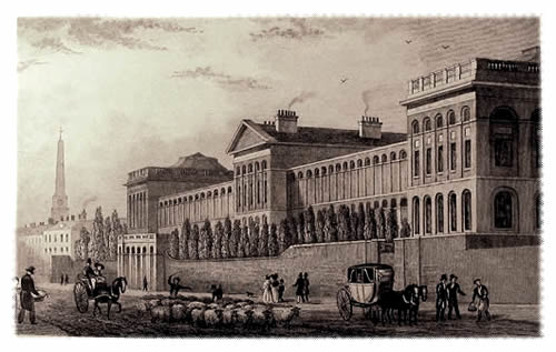 St Lukes Hospital for Lunatics, London , situated on Old Street, between Bath St and what is now the City Road roundabout. Built around 1786, demolished 1950s.